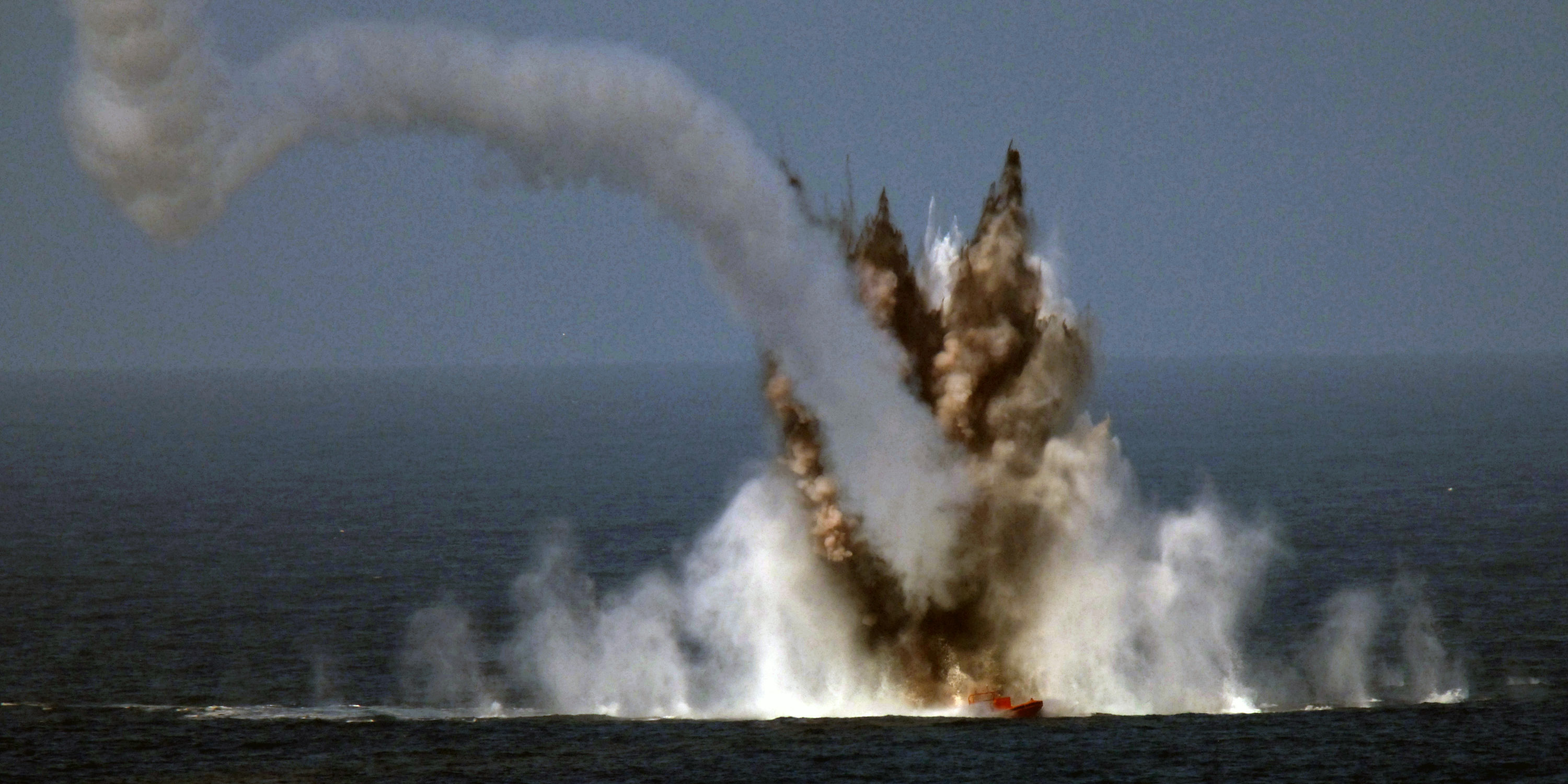 RIM-7 Sea Sparrow hits surface target